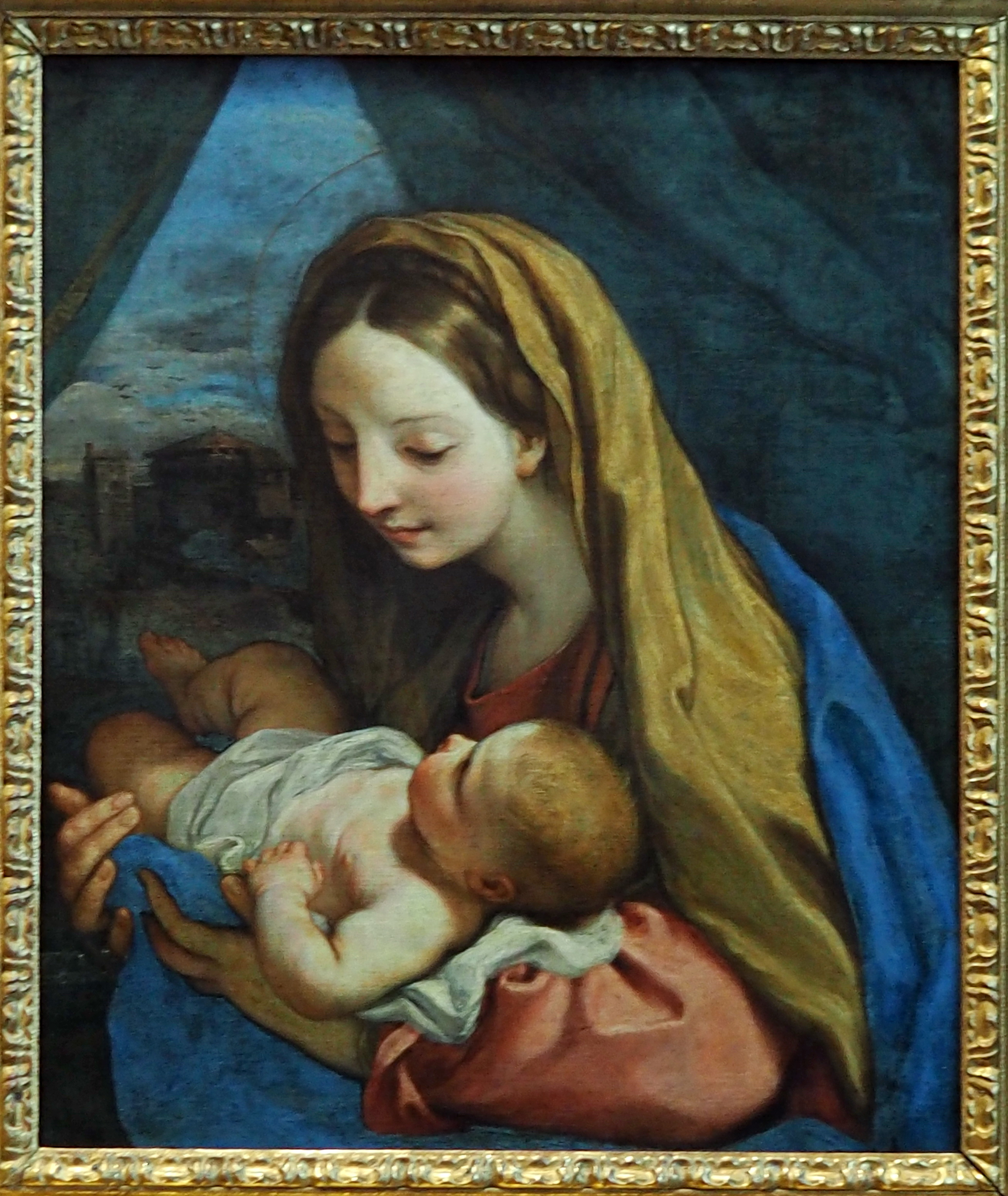 Kunsthistorisches Museum (Vienna), Carlo Maratta, Mary with child and St. John